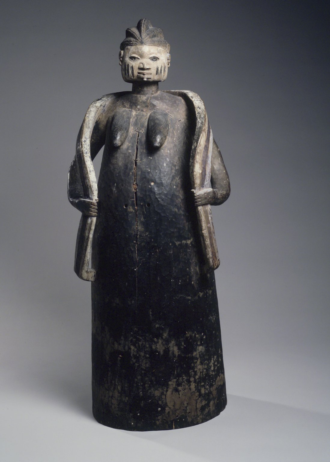 The object is a Gelede body mask. From bottom to top, its body is a cylindrical form with a protruding abdomen into which two small curved eye holes have been cut. Above the abdomen are hanging breasts. Arms are bent with hands holding a purple and white shawl which is draped around the shoulders. Above the shoulders is a cylindrical neck supporting a helmet mask covered in white pigment with a broad nose and mouth, protruding eyes, and median crest coiffure. There are indigenous repairs along a split in the center of the abdomen at the left side of the back.